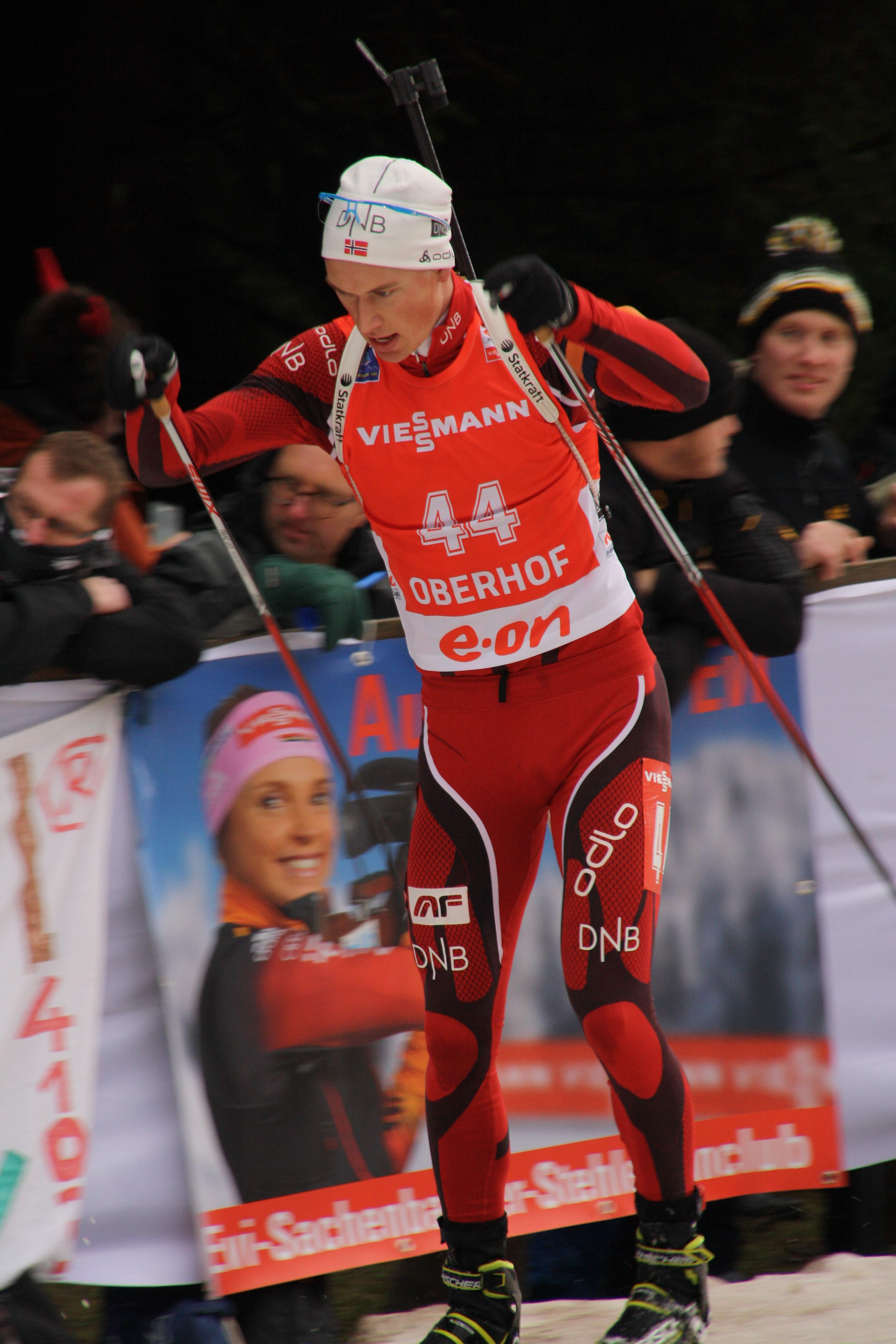 Biathlon World Cup Oberhof 2014 - Mens Pursuit